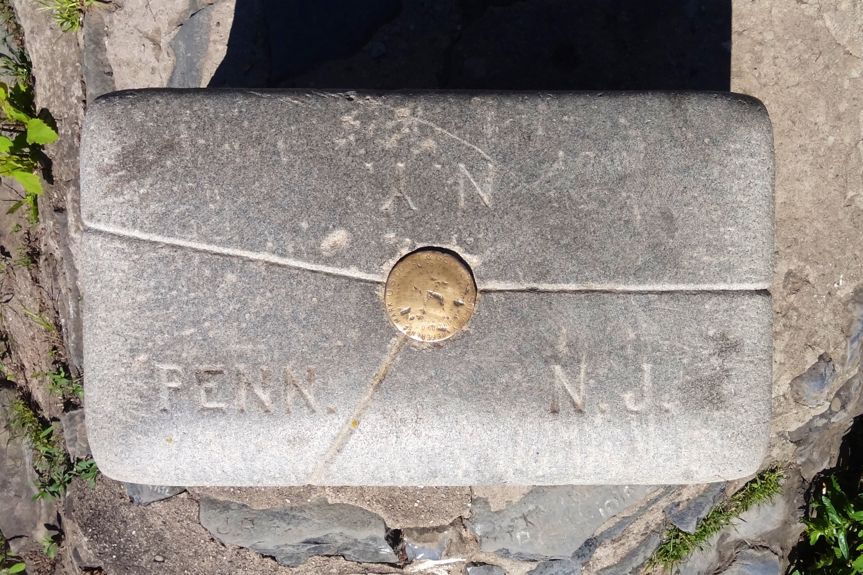 Top view of the Tri-States Monument marking the boundary of the states of New Jersey, New York, and Pennsylvania. Lines and state abbreviations engraved into the top surface of the monument. In the center is the U.S. National Geodetic Survey mark LY2604: TRI STATES.